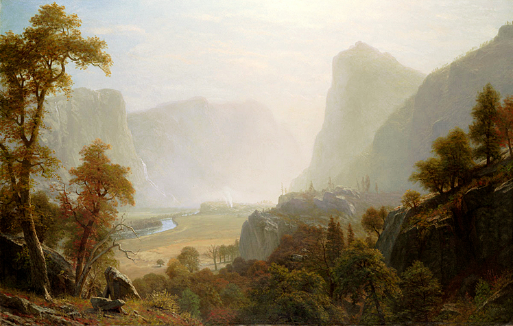 "Hetch Hetchy Valley from Road", oil, undated c.1870